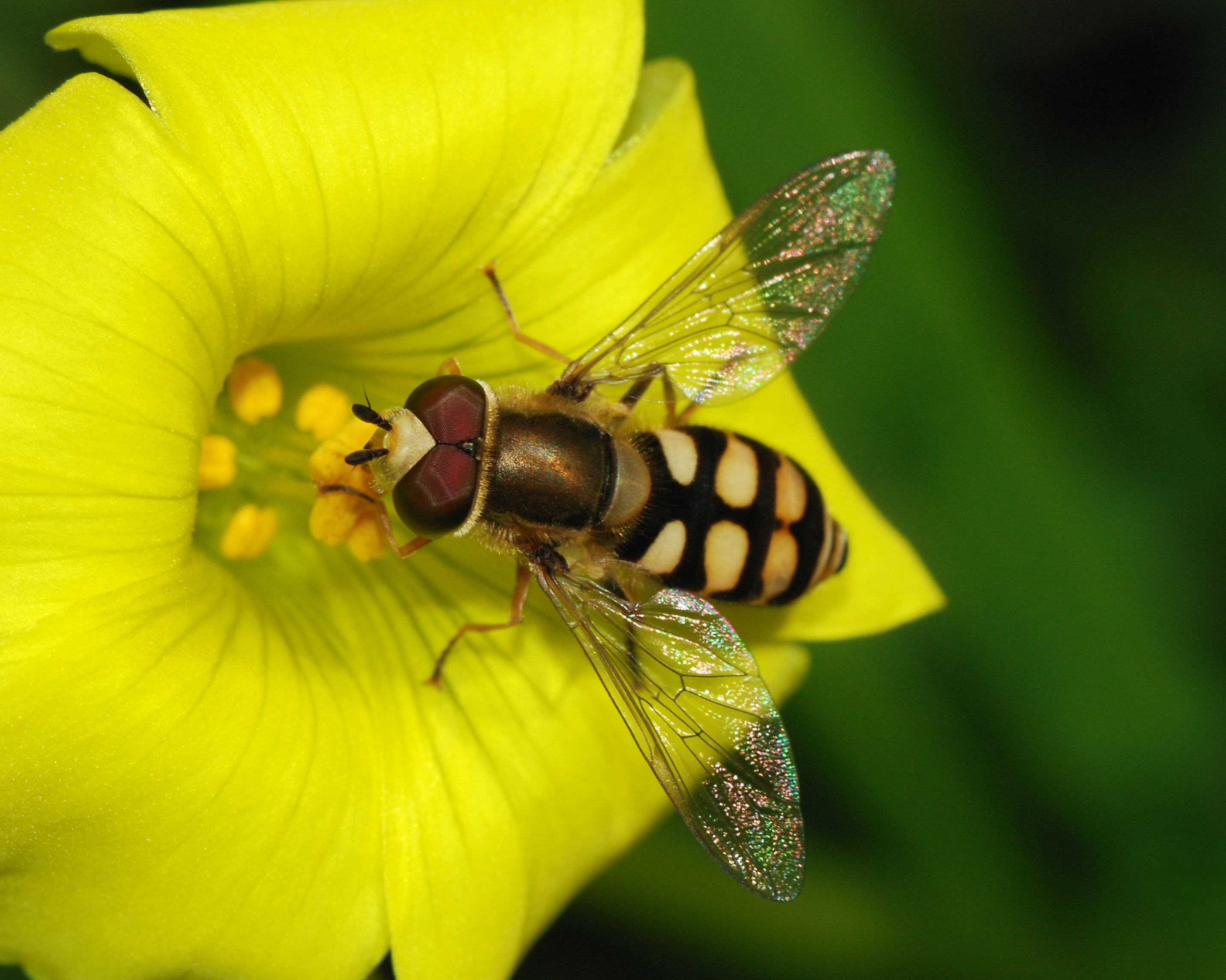 A male hoverfly (Eupeodes corollae) on an Oxalis pes-caprae flower.